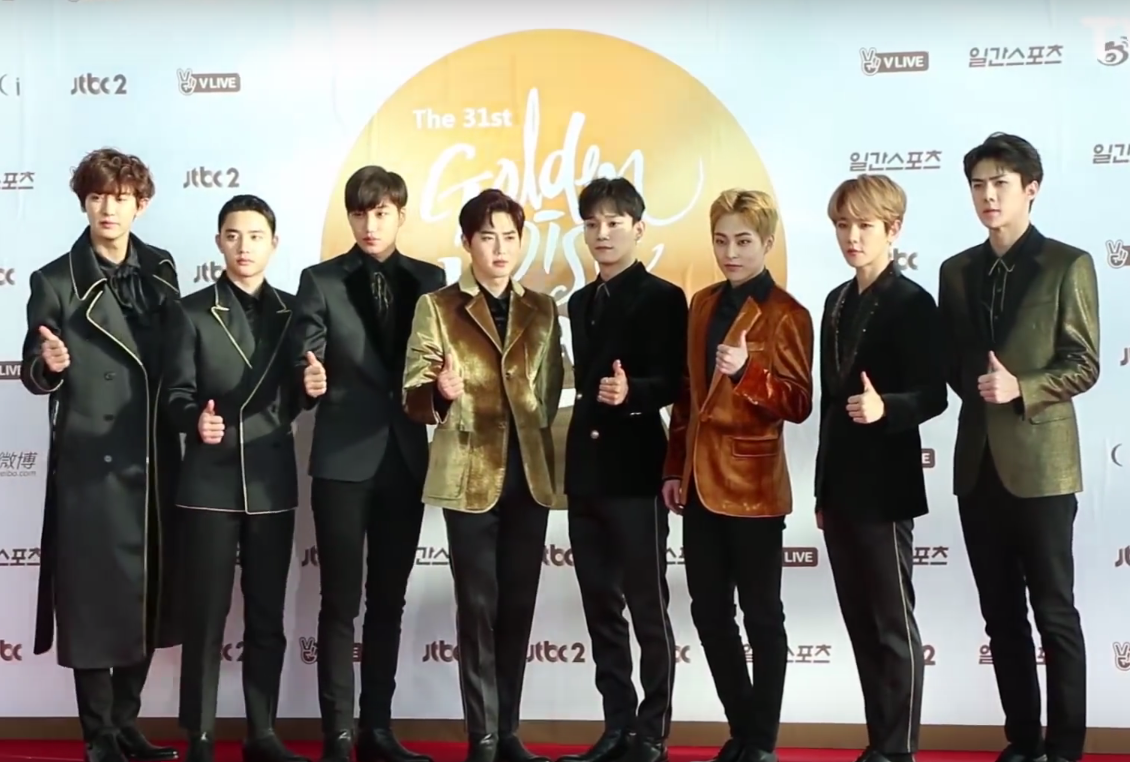 Exo at Golden Disk Awards January 2017